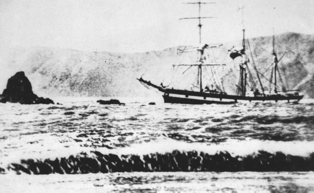 Rona (ship). Rona aground at Pencarron Heads, Wellington, New Zealand in July 1921. Refloated and hulked. Ex Polly Woodside.